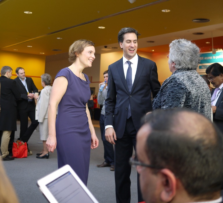 Justine Thornton at Labour Conference